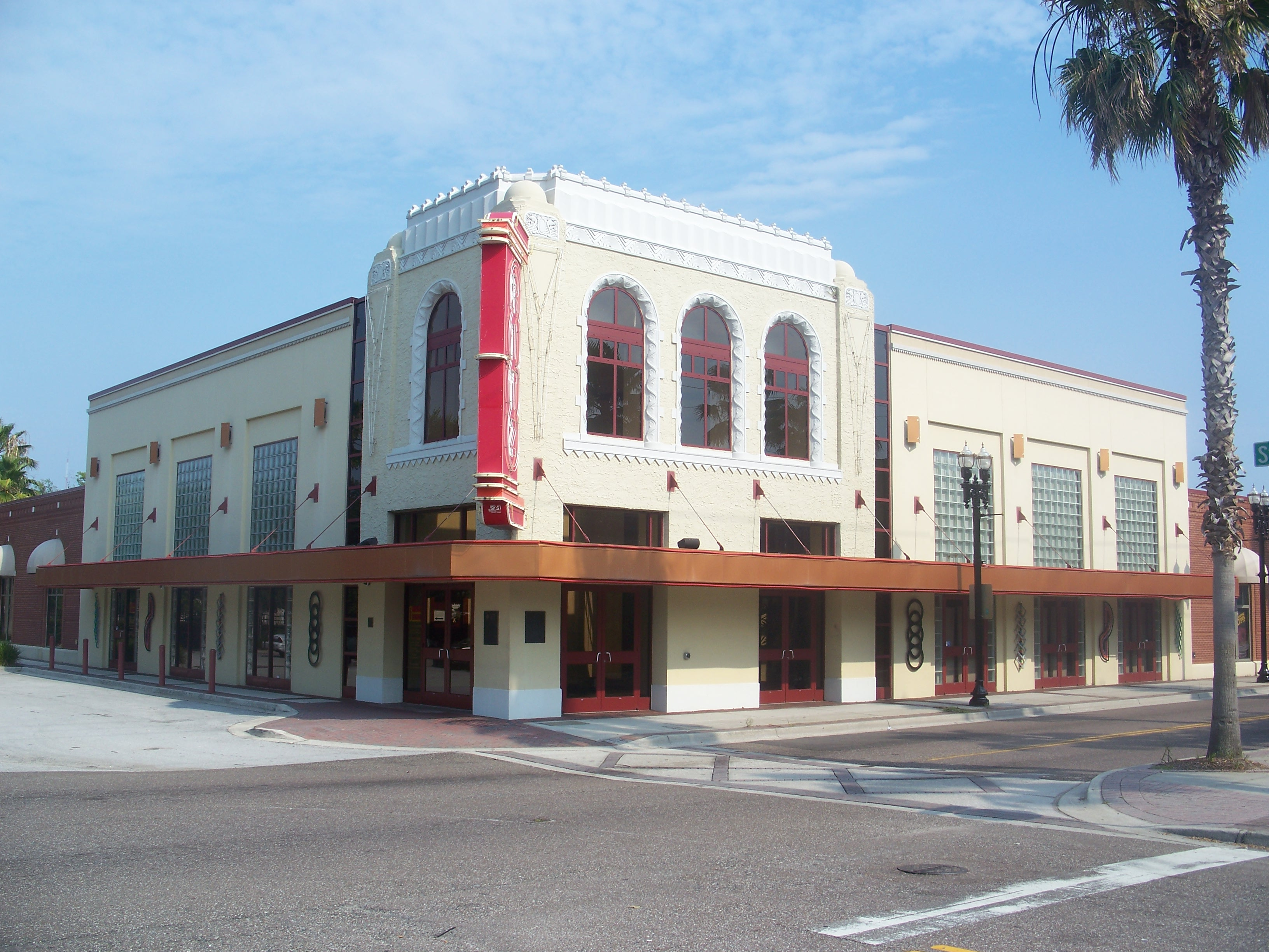 Jacksonville, Florida: Ritz Theatre (Jacksonville)/LaVilla Museum